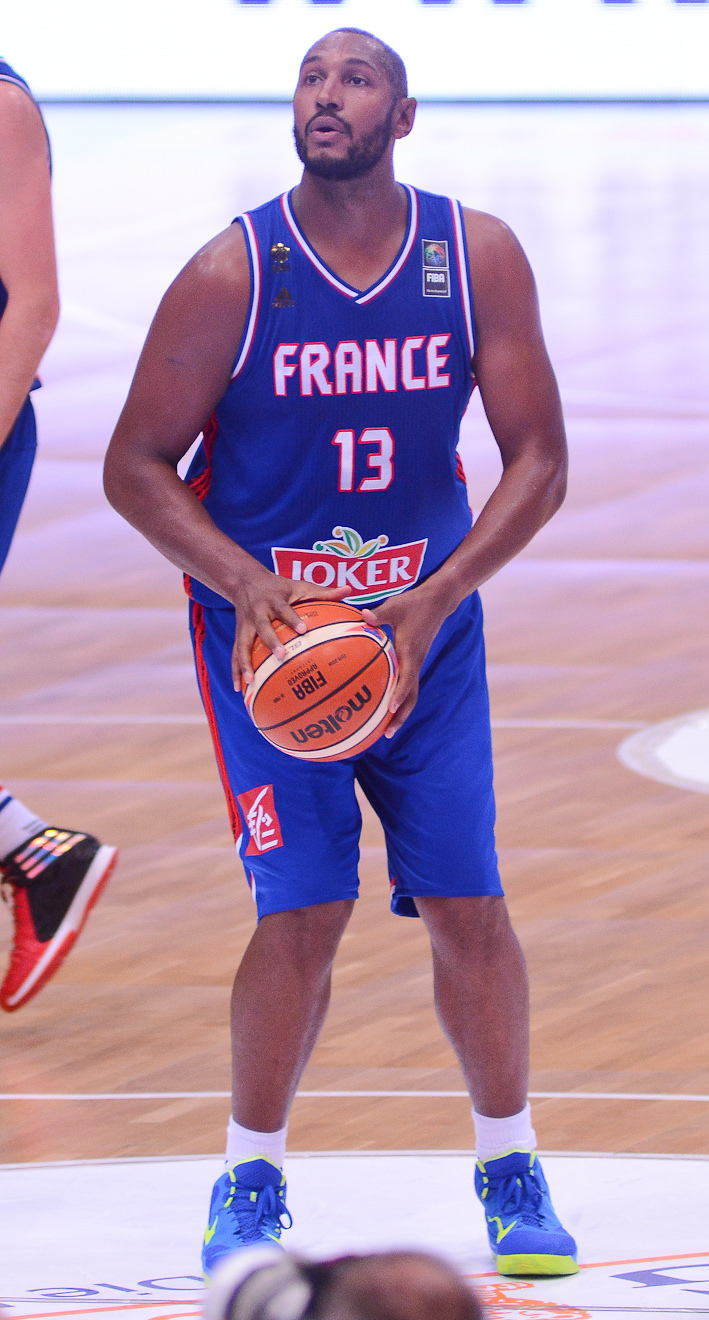 Boris Diaw playing for France in friendly game against Germany on 30 August 2015.